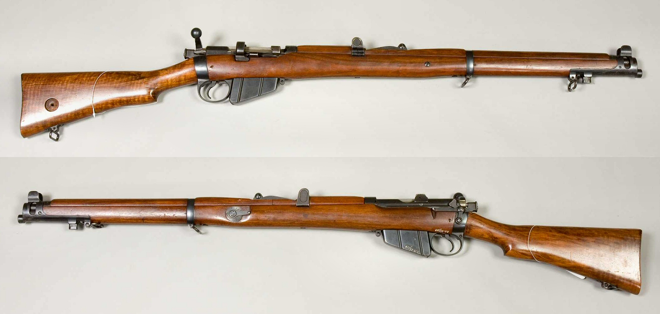 Lee-Enfield SMLE Mk III (No 1 Mk 3). Caliber .303" British. From the collections of Armémuseum (Swedish Army Museum), Stockholm, Sweden.